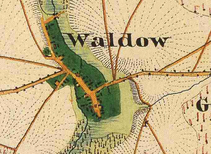 Waldow, Ortsteil der Gemeinde Spreewaldheide, Landkreis Dahme-Spreewald, Brandenburg, Deutschland, Ausschnitt aus dem Urmesstischblatt 4050 Straupitz von 1846